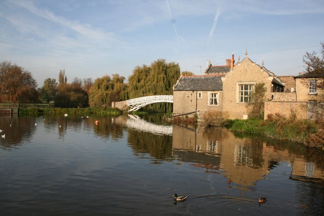 View across the River Great Ouse from The Causeway, Godmanchester, Cambridgeshire (formerly Huntingdonshire), to the Chinese Bridge (centre) and former Town Hall (right)